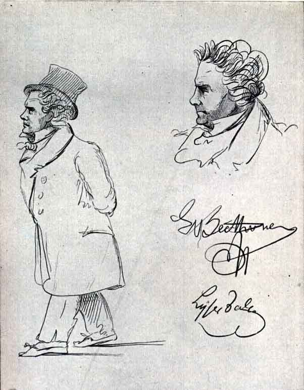 Caricatures of Ludwig van Beethoven